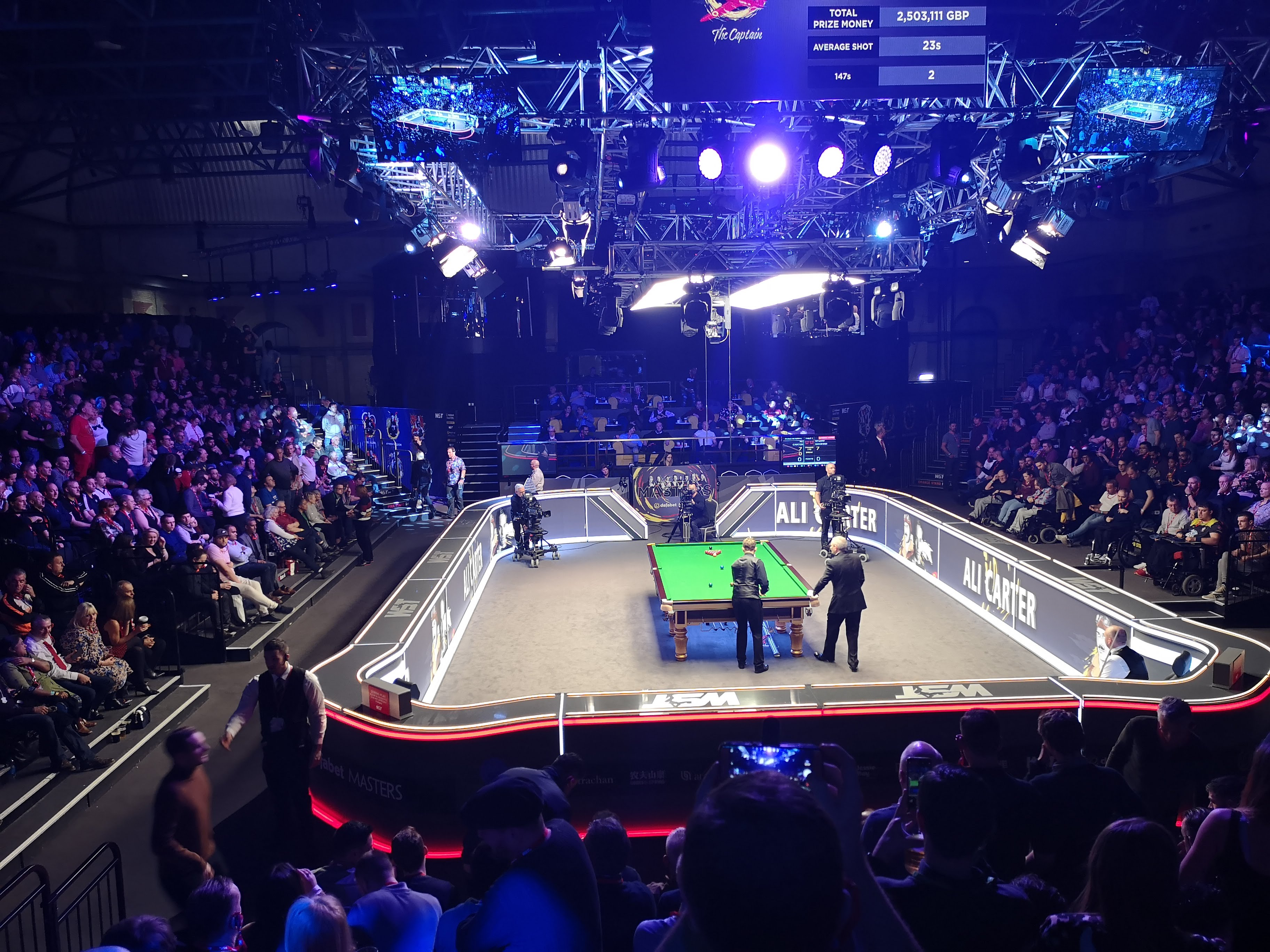 Masters final 2020 just before break off